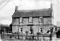 Black-and-white photograph of the Hanson House, Normanton, West Yorkshire, England. Courtesy of the Wakefield Council, .uk.